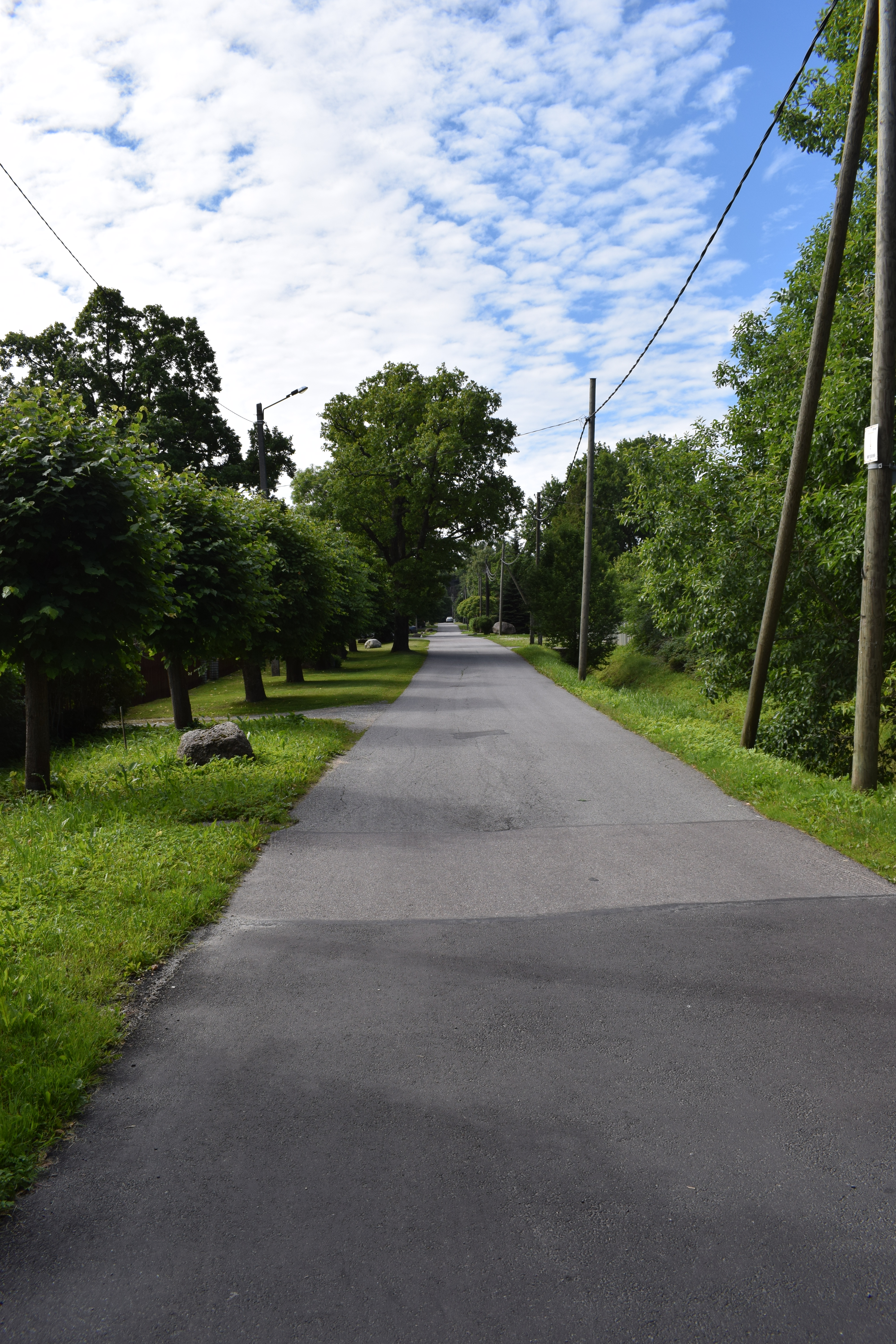 Tõru tänav